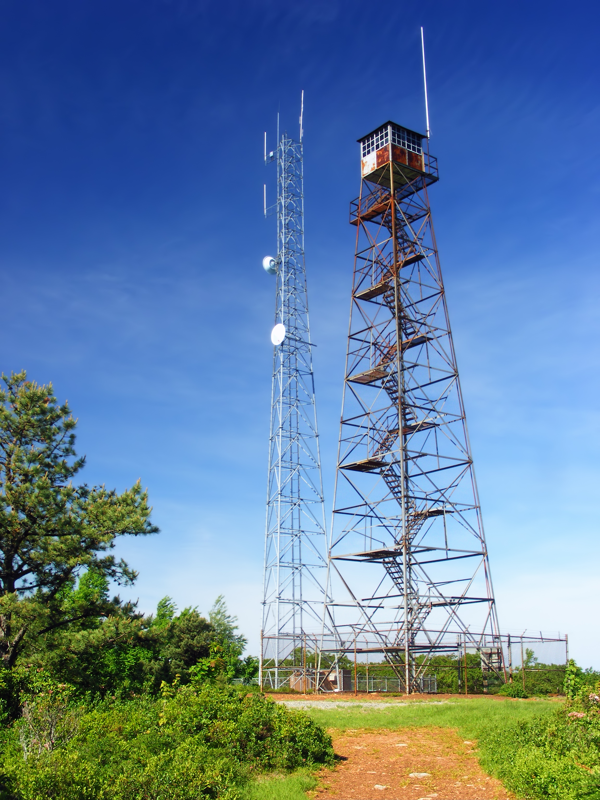 Grand View Fire Tower, Ricketts Glen State Park, Luzerne County. The tower sits on the summit of Red Rock Mountain (elevation: 2449 feet [746 meters]), a south-facing portion of the Allegheny Front. Trees and brush obscure ground-level views; the only grand view is from the tower itself, which the park service rarely opens.